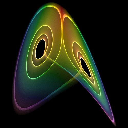 The Lorenz attractor near an intermittent cycle: much of the time the trajectory is close to a nearly periodic orbit, but diverges and returns. Change the parameters slightly and the intermittency will either dissolve or turn into a real attractive periodic cycle. Made with Chaoscope.